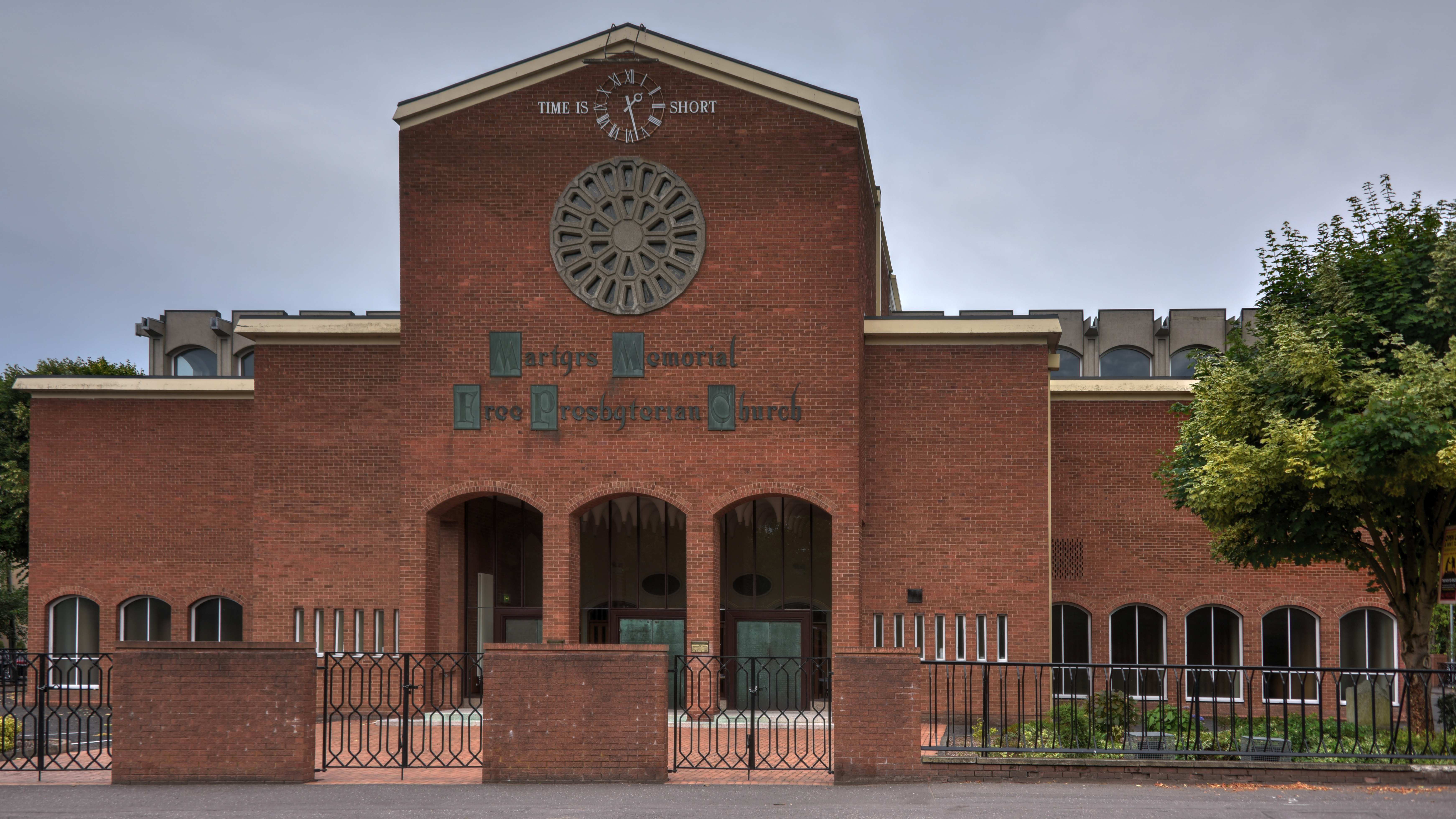 Ian Paisley, former First Minister of Northern Ireland, was also the minister of this church for many decades.